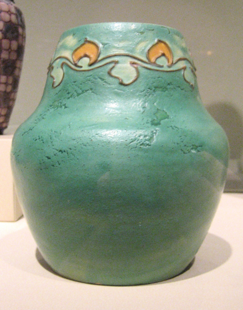 Arequipa Pottery (United States, 1911 - 1918) , Frederick Hurten Rhead (England, 1880 - 1942) Vase, 1911-13 Ceramic, Earthenware, Height: 6 1/8 in. (15.56 cm); Diameter: 5 3/4 in. (14.61 cm) Art Museum Council Fund (M.89.119.4) Wikipedia Loves Art at the Los Angeles County Museum of Art This photo of item # M.89.119.4 at the Los Angeles County Museum of Art was contributed under the team name "artifacts" as part of the Wikipedia Loves Art project in February 2009. Los Angeles County Museum of Art The original photograph on Flickr was taken by Beesnest McClain—please add a comment to the original Flickr page whenever a use has been made on Wikipedia or another project. Project galleries on Flickr: this institution, this team